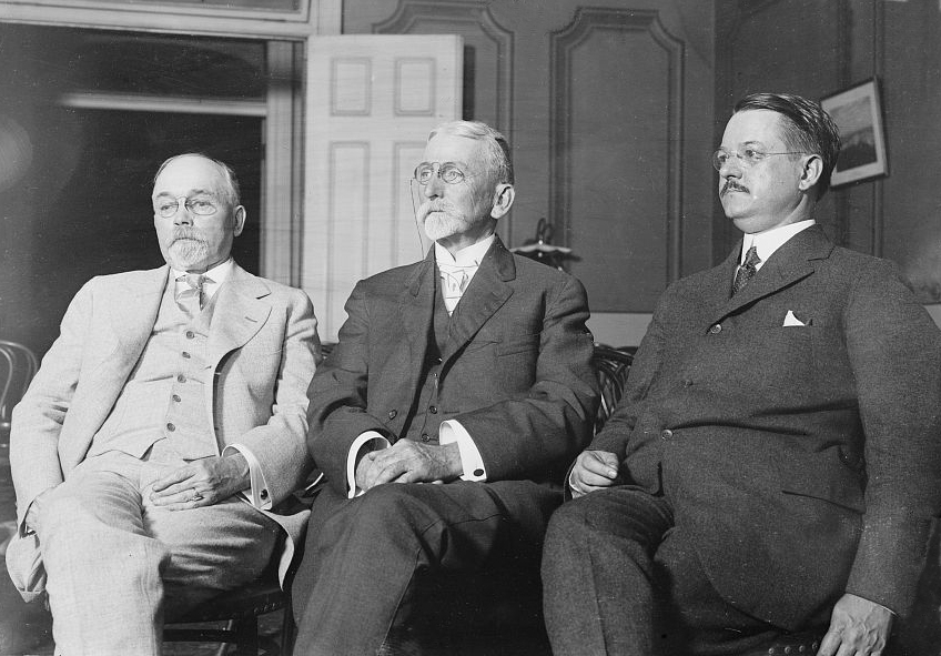 Members of the U.S. Board of Mediation and Conciliation for the settlement of disputes between railroads: Martin Augustine Knapp; William Lee Chambers; George W. W. Hanger, acting U.S. Labor Commissioner.